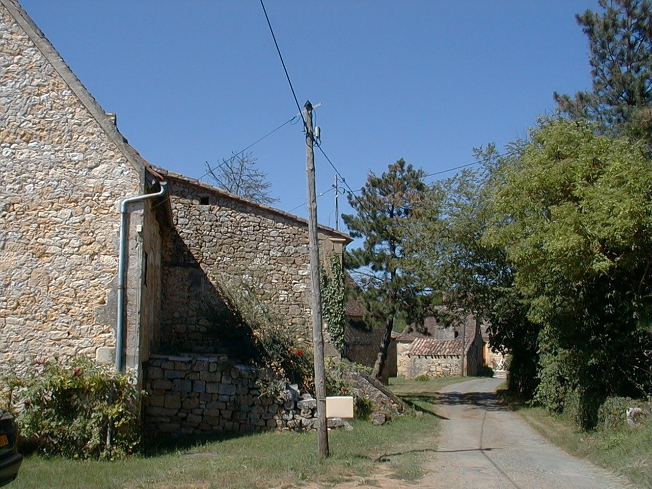 Faux (Dordogne)